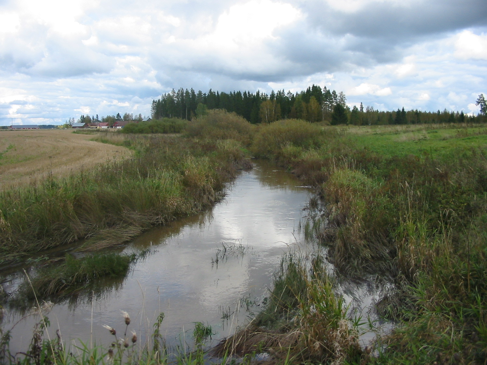 The River Ypäjoki in Kauhanoja, Loimaa, Finland